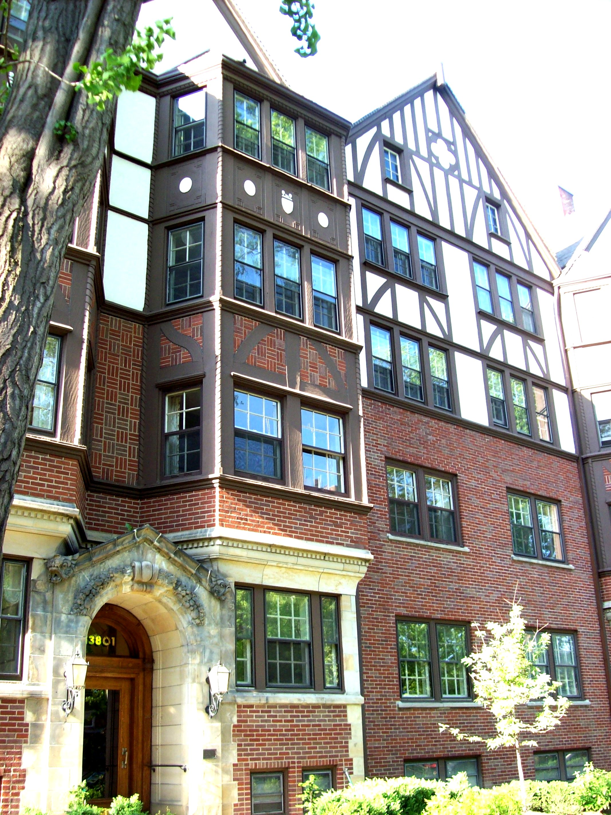 Moreland Courts condominiums at Shaker Square in Cleveland, Ohio